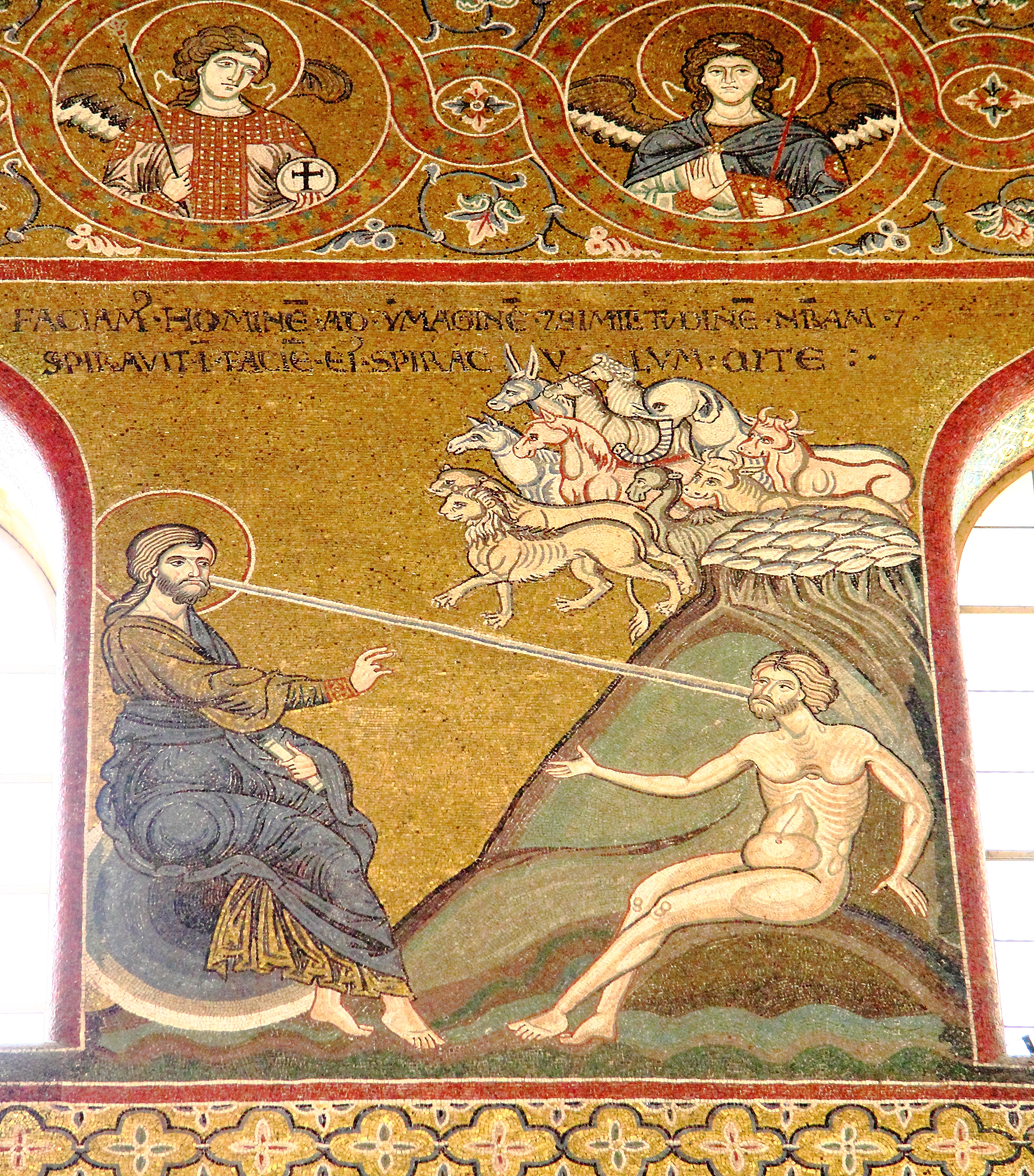 Monreale, Sicily: cathedral, mosaic of the creation of Adam